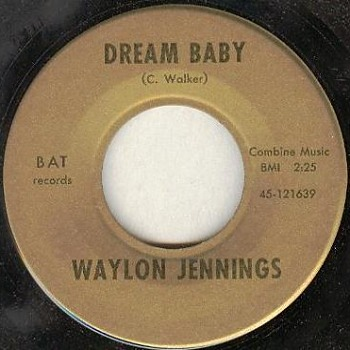 Record of Dream Baby by Waylon Jennings, BAT Rec.